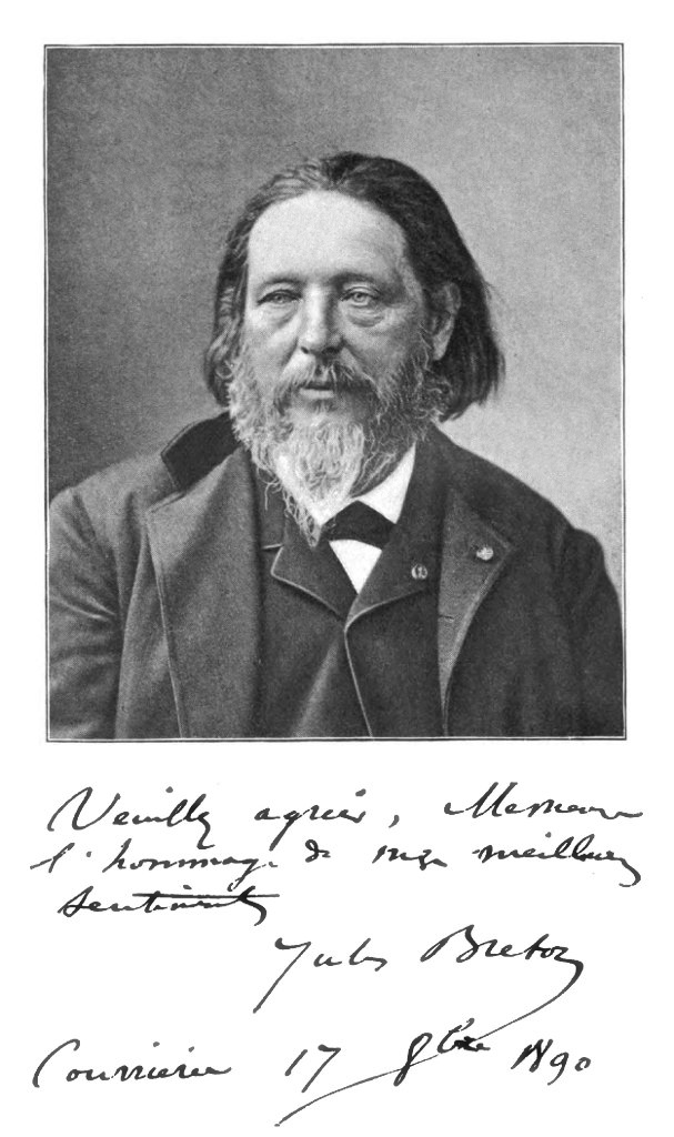 Jules Breton (May 1, 1827 – July 5, 1906)